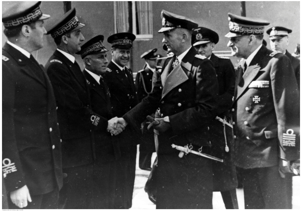 Admiral Riccardi introduces Grand Admiral Donitz to the Italian admirals